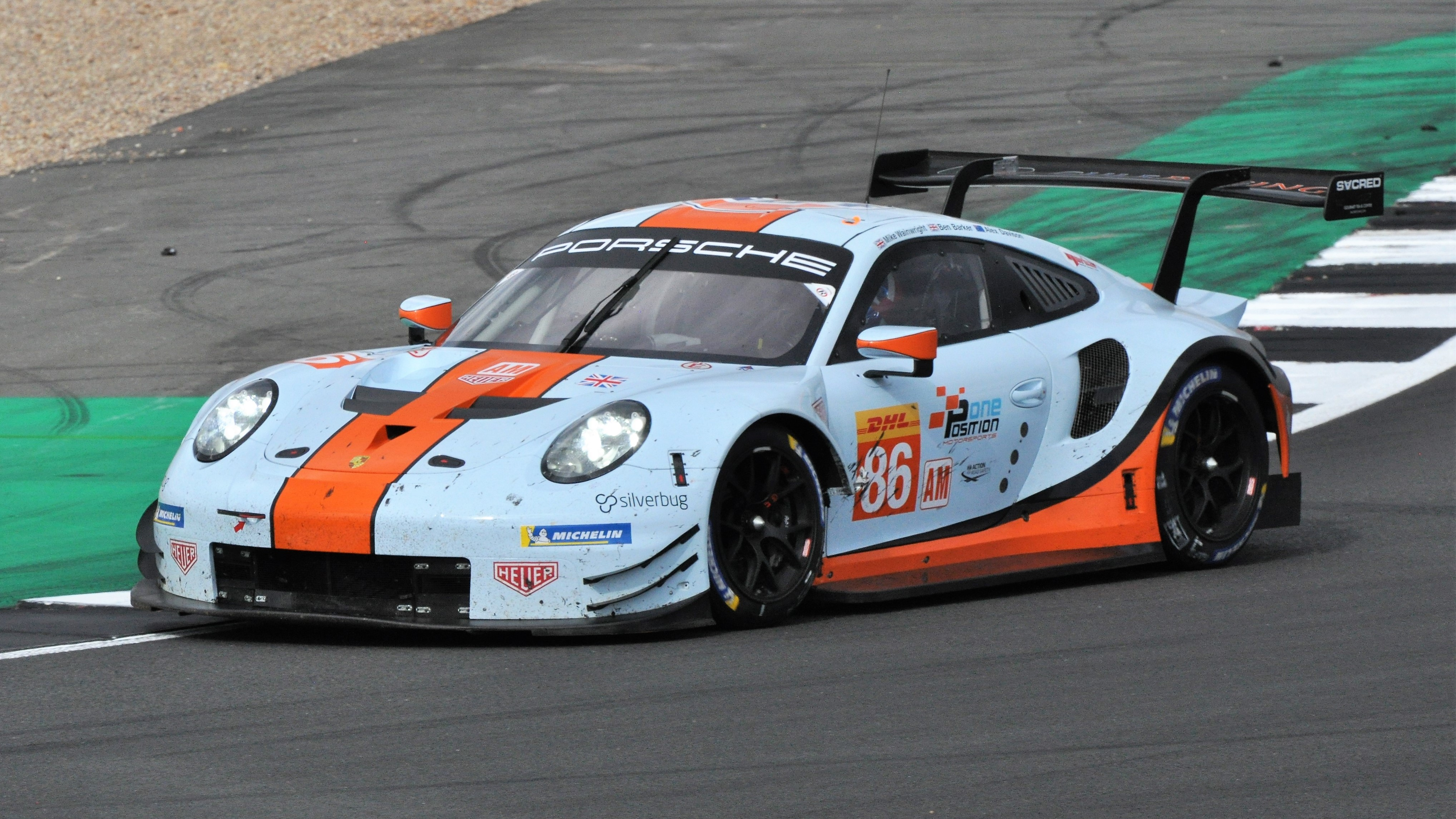 British driver Mike Wainwright leans the number 86 Gulf Racing-entered Porsche 911 RSR into Club corner during the 2018 6 Hours of Silverstone race. Wainwright and his co-drivers, compatriot Ben Barker and Australian Alex Davison, finished sixth in the LMGTE Am class.